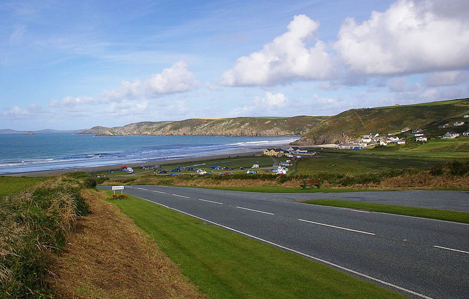 View of Newgale and its beach from the lay-by at the top of the hill on the A487 road.